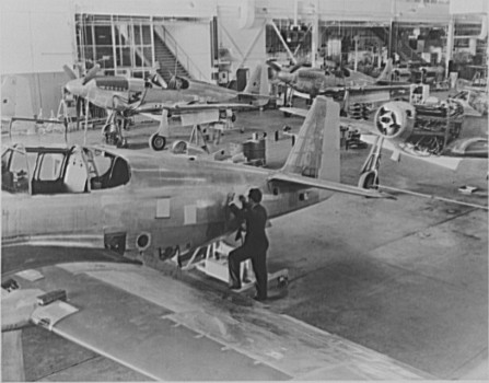 Production of A-36A fighter planes at North American Aviation at Inglewood, California (USA), in October 1942.